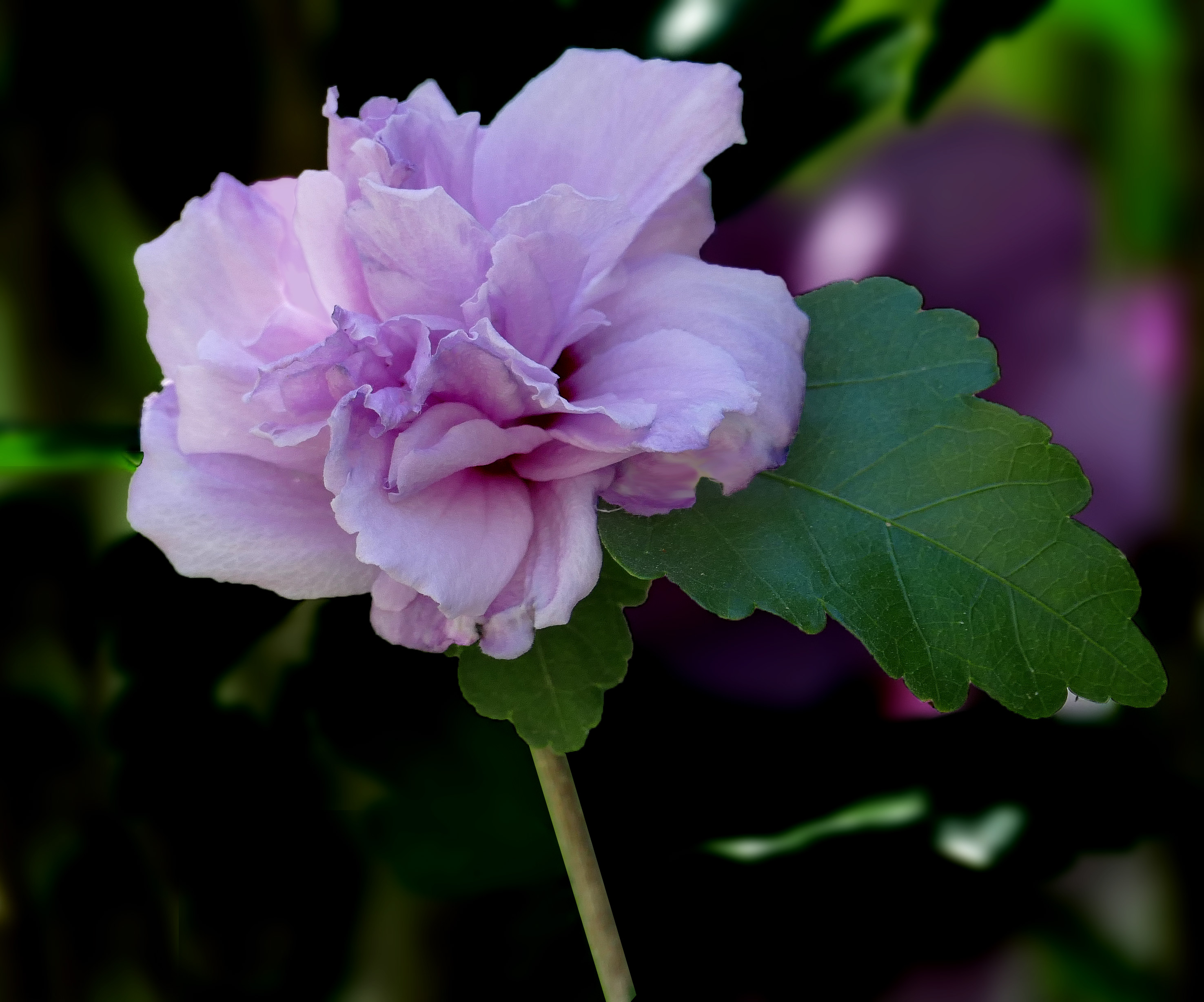 Rose of Sharon, Double Purple Althea -- Hibiscus syriacus 'Ardens'